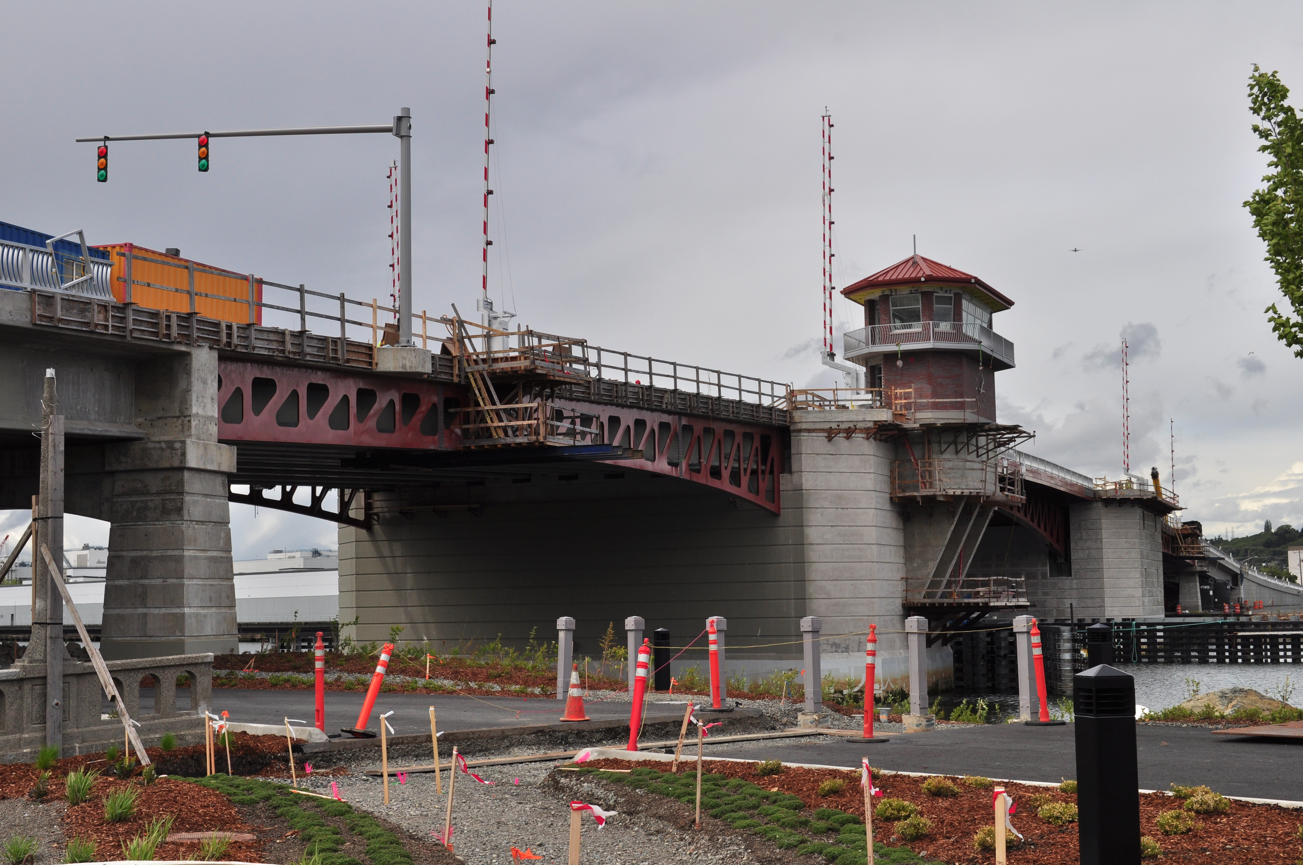 New (replacement) South Park Bridge (over the Duwamish Waterway) under construction. While technically on King County land that is not part of the city, this bridge connects two neighborhoods of Seattle, Washington, USA (Georgetown to the north, and South Park from which this photo is taken, to the south).